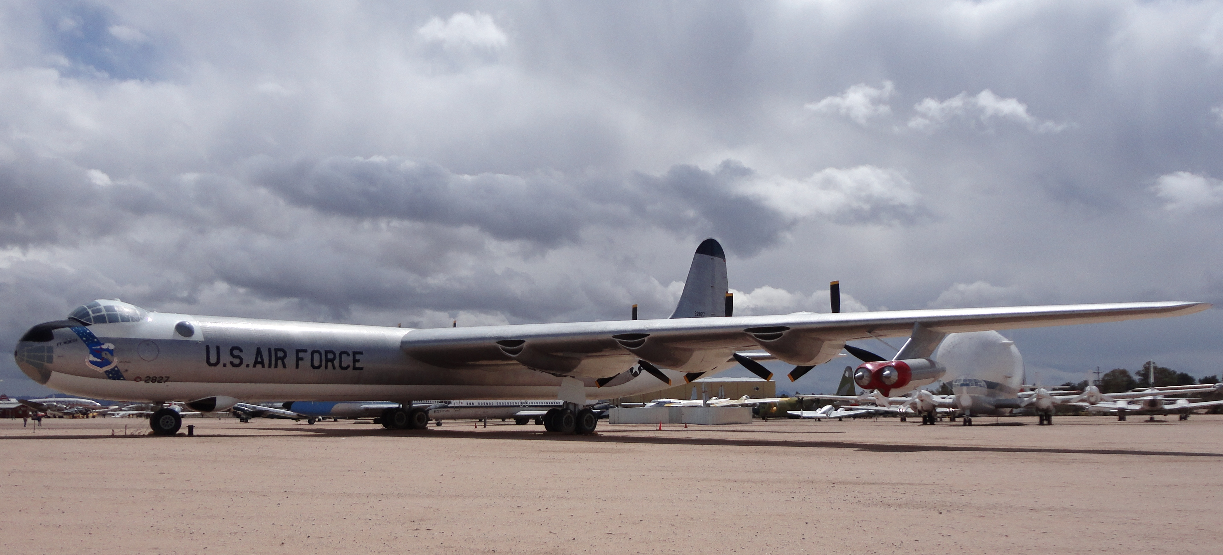 Convair B-36J AF Serial Number 52-2827 on display at the Pima Air & Space Museum located in Tucson, AZ.